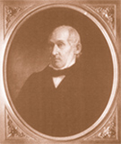 Photograph of Samuel Ready